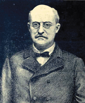 Jan Hofmeyr. Known as Onze Jan. Leader of the Afrikaner Bond Party. Cape Colony.